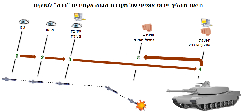 Process interception of anti tank missile - Soft Kill. Hebrew